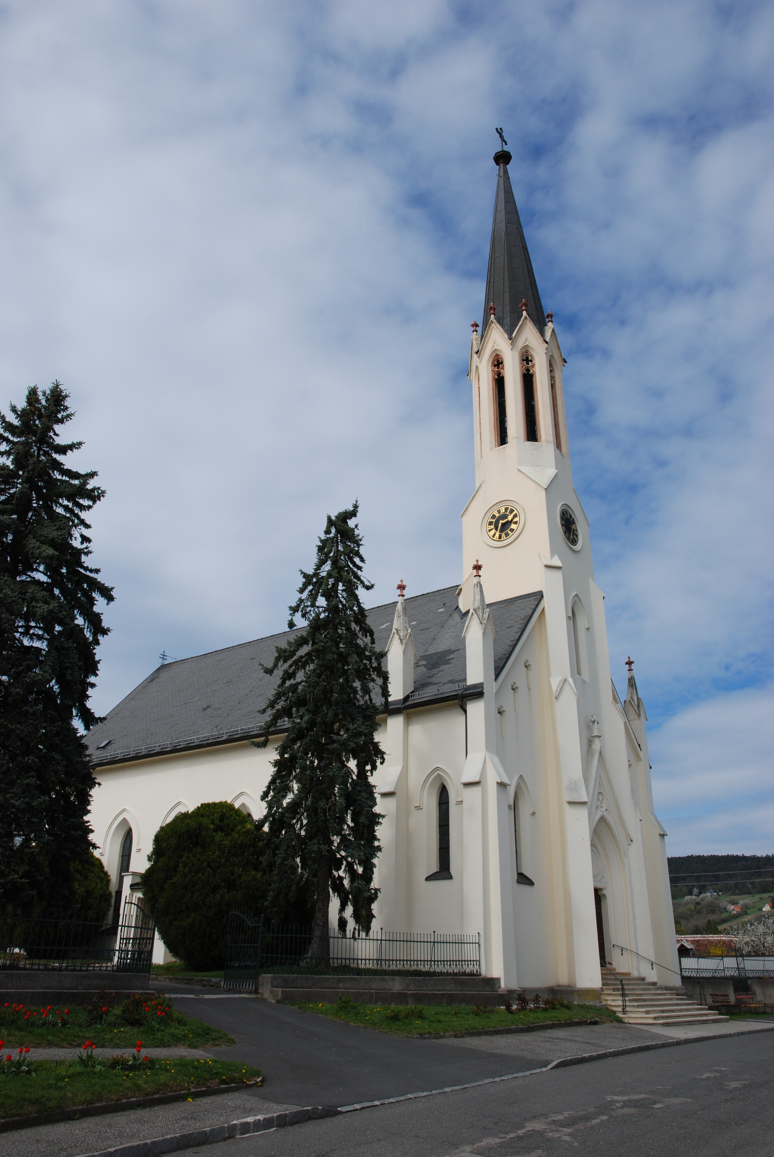 Rechnitz evangelische Pfarrkirche